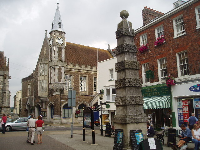 Town Pump and the Corn Exchange. View from South Street